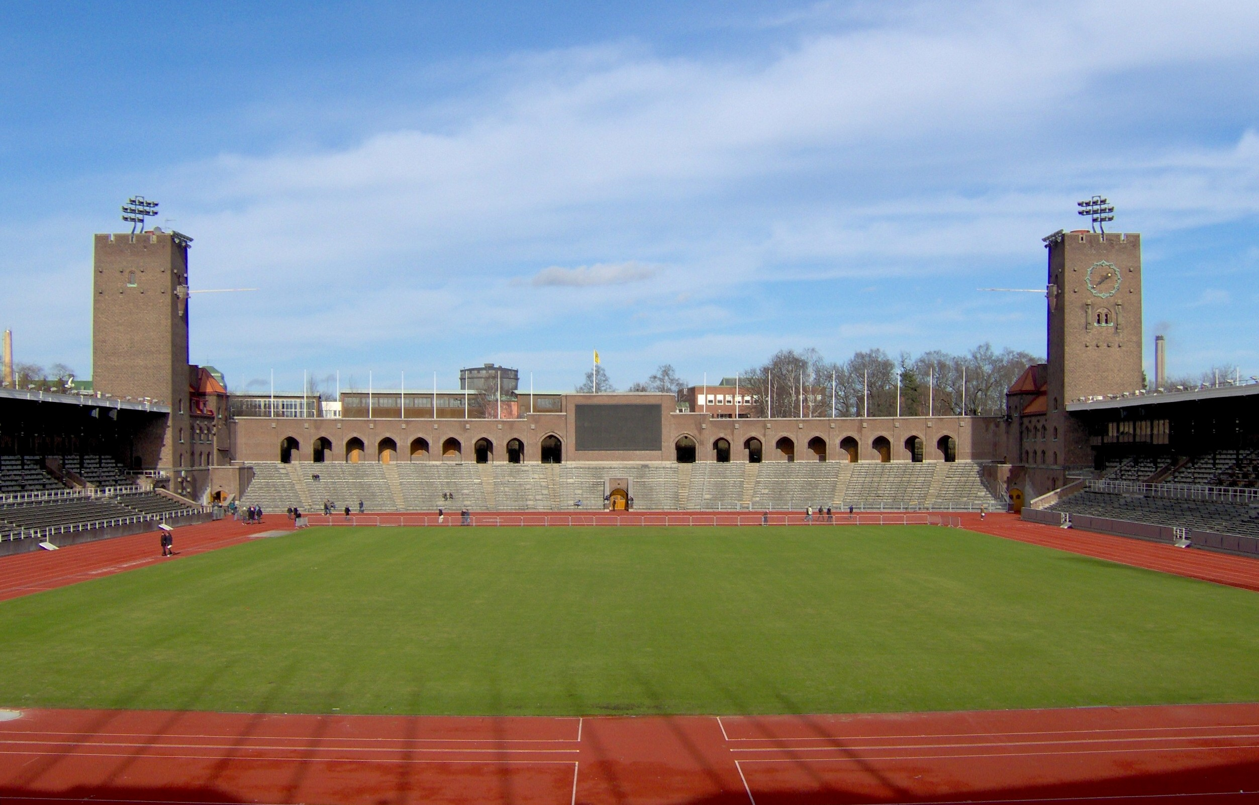 Stockholms Olympiastadion, north stand and towers.